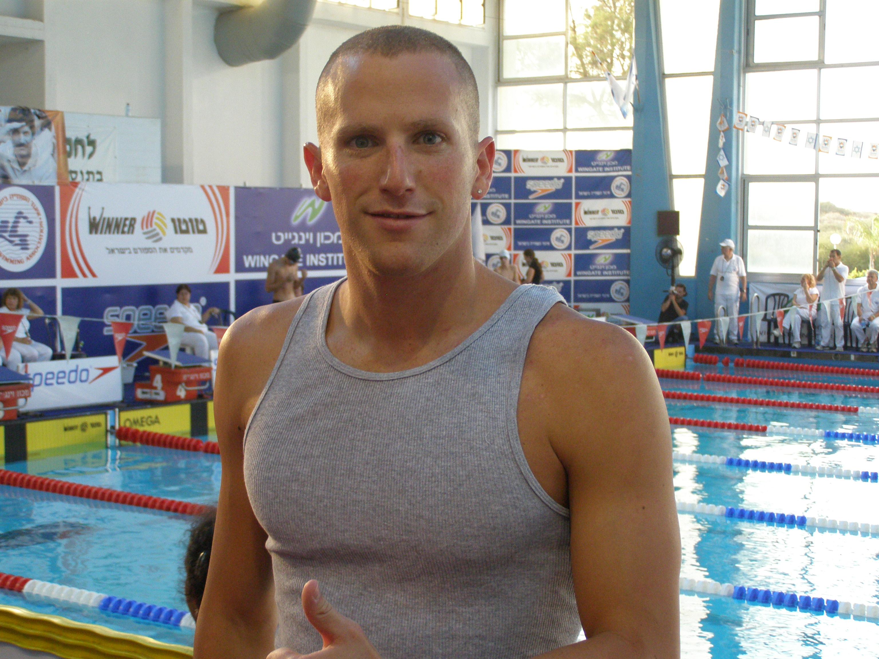 Dani Melnik at the maccabiah games 7/2009